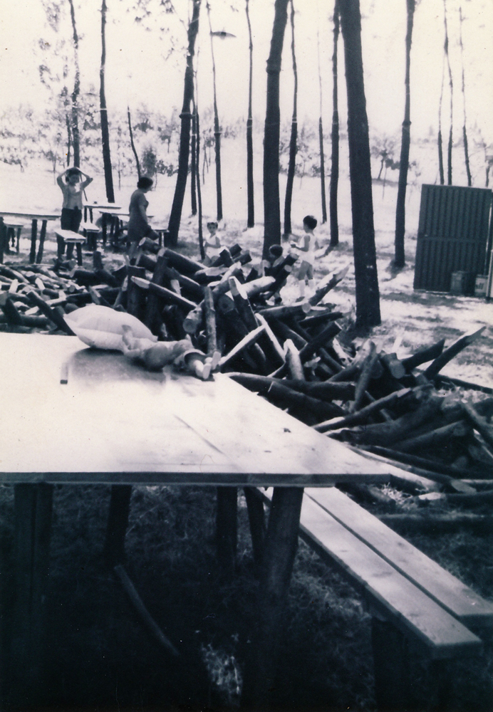 L'Osteria ai Pioppi nel 1969 poco dopo la prima apertura.